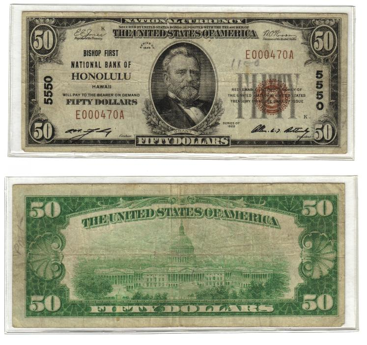 National Bank Note Series 1929 of the Bishop First National Bank in Honolulu Hawaii.